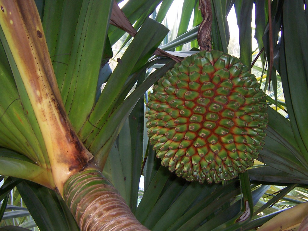 screw pine (Pandanus utilis)- fruit, Reunion Island